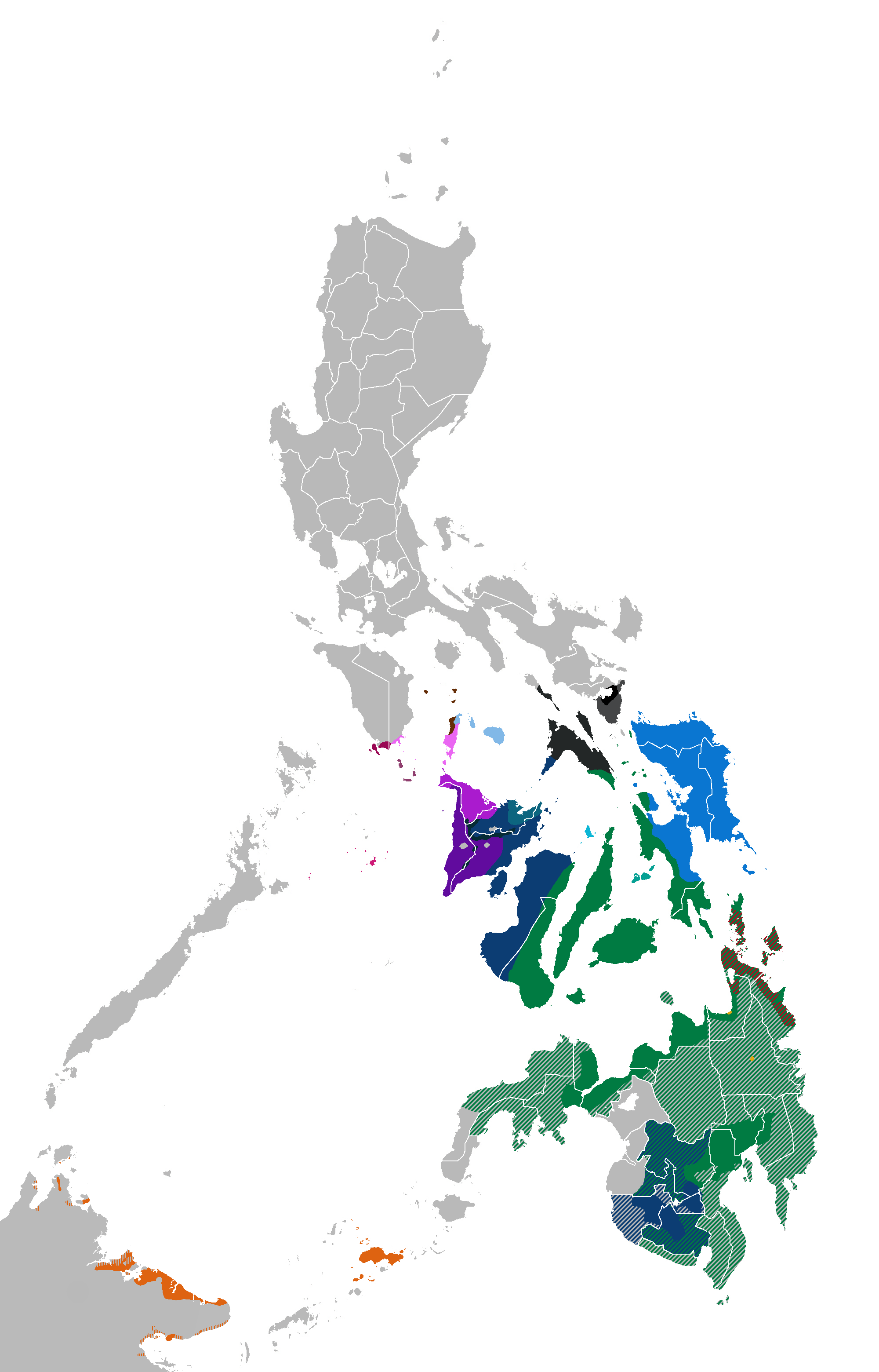 Geographic extent of Visayan languages based on Ethnologue and the National Statistics Office 2000 Census of Population and Housing Cebuan Cebuano Central Visayan Waray Baybayanon Kinabalian Hiligaynon Capiznon Romblomanon Bantayanon Porohanon Ati West Visayan Cuyunon Caluyanon Aklanon Kinaray-a Inonhan Ratagnon Asi Asi South Visayan Surigaonon Butuanon Tausug Bisakol Masbatenyo Southern Sorsogon Central Sorsogon Other legend Widespread/L2 use of Cebuano Widespread/L2 use of Hiligaynon